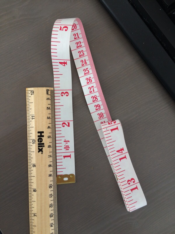 tape measure from tailor in 大连市, showing modern Chinese inch of a third of a decimetre, and imperial inches for comparison